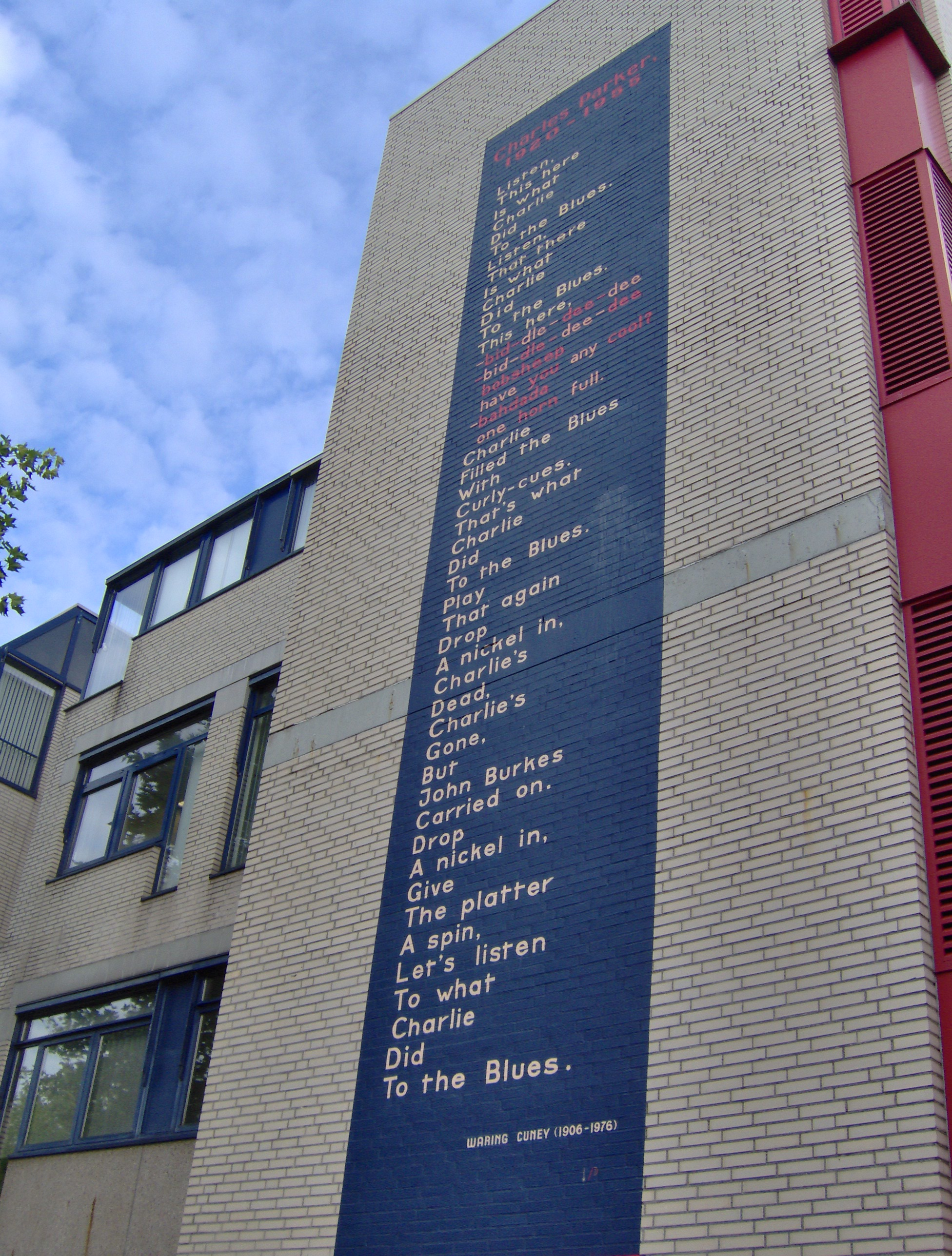 The poem Charles Parker, 1920-1955 of the American poet William Waring Cuney on a wall of the building at the Langegracht 72 in Leiden, The Netherlands